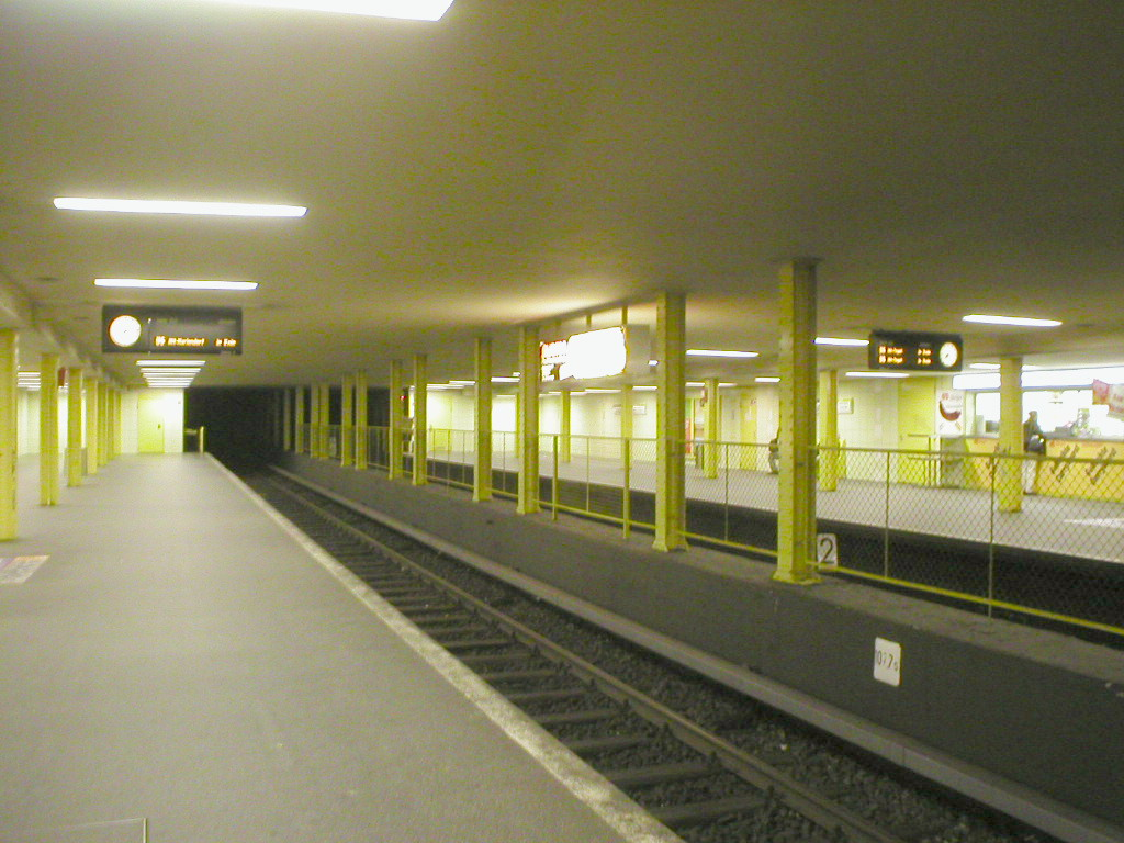 U6 platform of Leopoldplatz U-Bahn station, Berlin